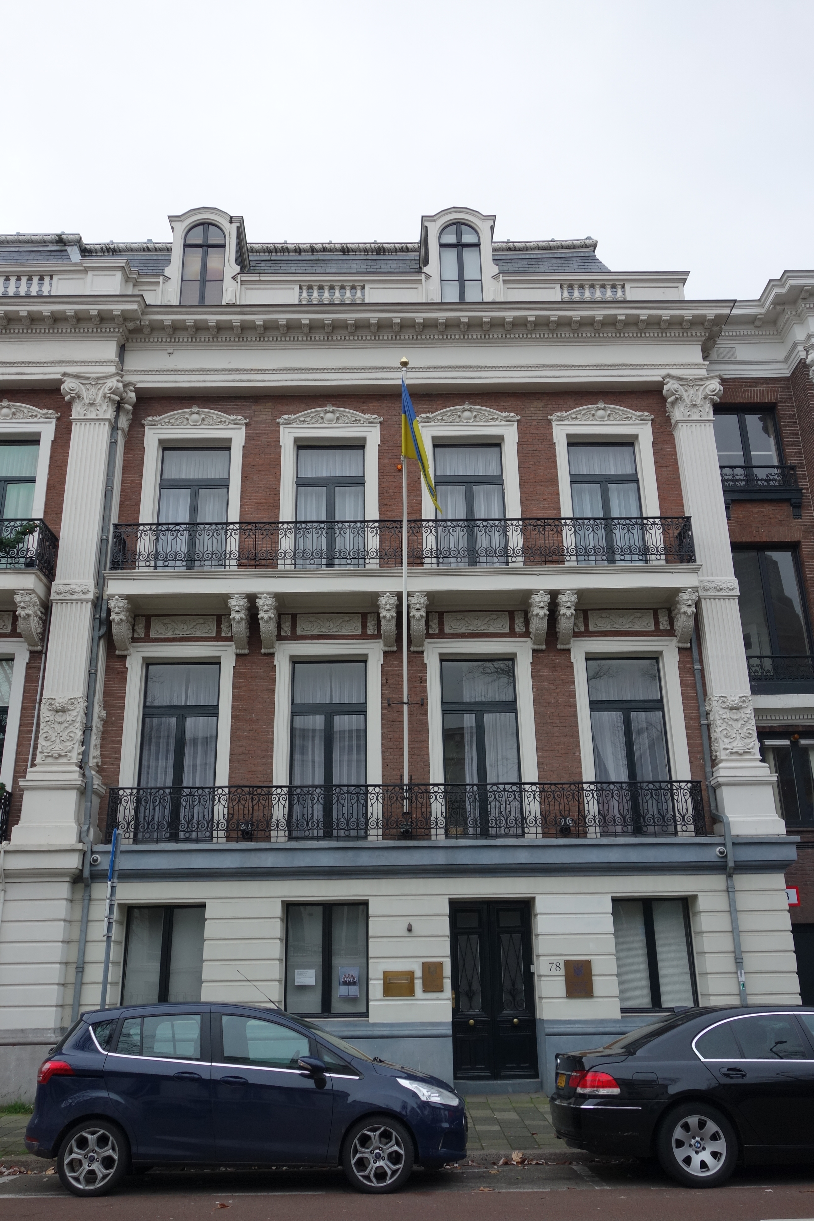 Embassie of Ukraine in The Hague